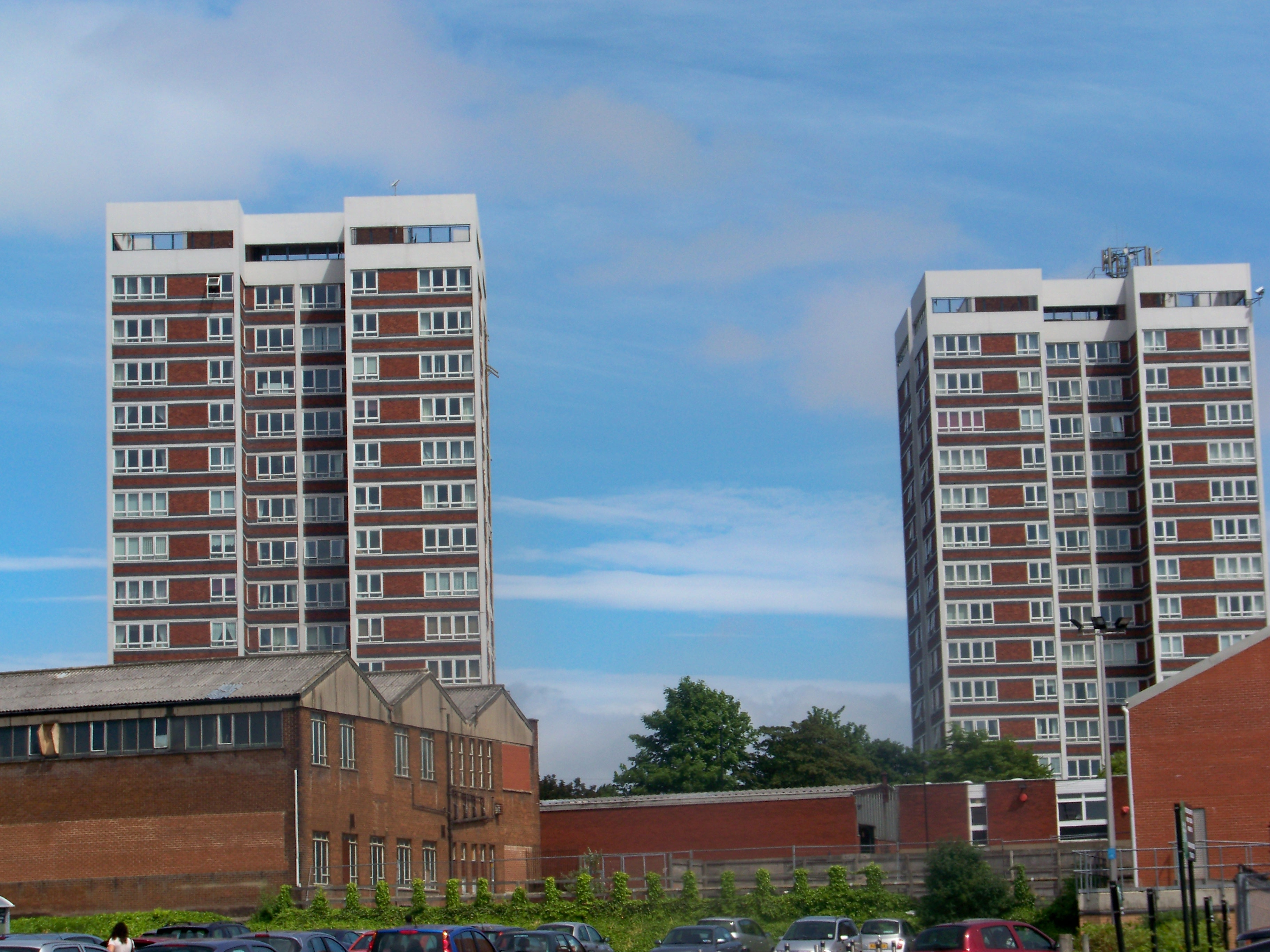 Flats in the Heaton district of Newcastle upon Tyne. Taken from Morrisons car park on the afternoon of Friday the 18th of June 2010.